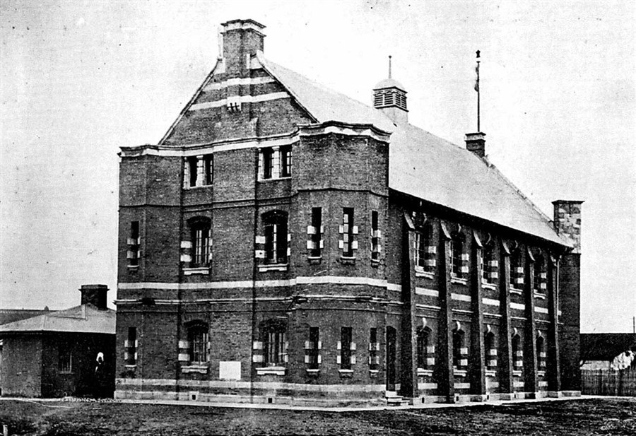 The Dongbaoxing Road gurdwara was opened in 1908 by the Sikh community with funds raised by them on a piece of land allotted by the Shanghai Municipal Council. Here, Vaisakhi (harvest festival) and other important days were celebrated. ਪੰਜਾਬੀ: ਡੋਂਗਬਾਓਕਸਿੰਗ ਰੋਡ ਸਿੱਖ ਗੁਰਦਵਾਰਾ 1908 ਵਿੱਚ ਸਿੱਖਾਂ ਨੇ ਆਪਣੇ ਇਕੱਠੇ ਕੀਤੇ ਫੰਡ ਨਾਲ ਸ਼ੰਗਾਈ ਮਿਊਸਪਲ ਕੌਂਸਲ ਵੱਲੋਂ ਨਾਮੇ ਕੀਤੀ ਜ਼ਮੀਨ ਤੇ ਉਸਾਰਿਆ।ਇੱਥੇ ਵਿਸਾਖੀ ਤੇ ਹੋਰ ਗੁਰਪੁਰਬਾਂ ਤੇ ਵੱਡੇ ਇਕੱਠ ਹੁੰਦੇ ਸਨ।